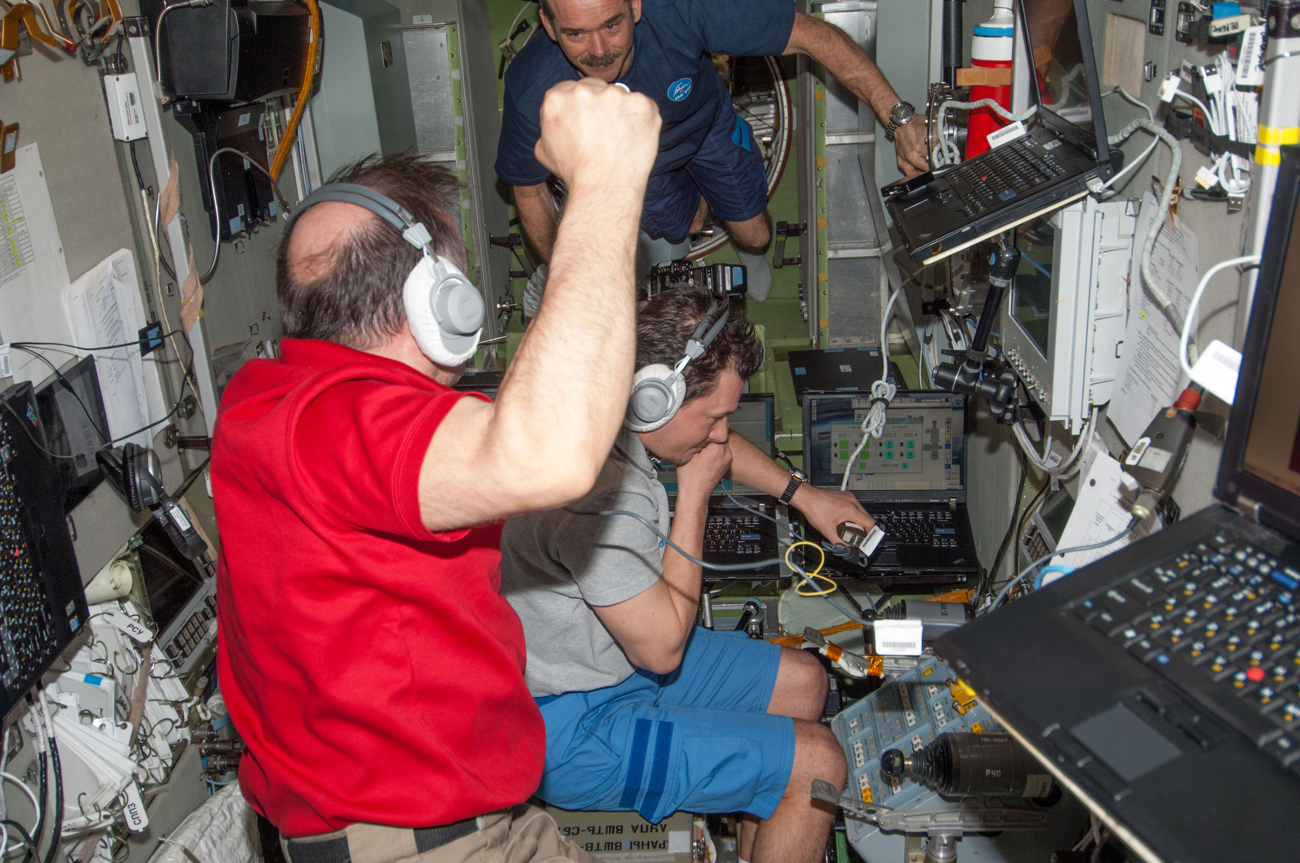 Although some pictures are worth a thousand words, this scene in the Zvezda service module aboard the International Space Station may be a little misleading without a few words to accompany it. It almost appears that Russian cosmonaut Pavel Vinogradov (foreground) of Roscosmos is raising his fist toward Expedition 35 Commander Chris Hadfield of the Canadian Space Agency. Actually, Vinogradov, Hadfield and cosmonaut Roman Romanenko (between his two crewmates) are all celebrating the successful docking of the Progress 51 cargo craft that had just completed its docking with the orbital outpost.